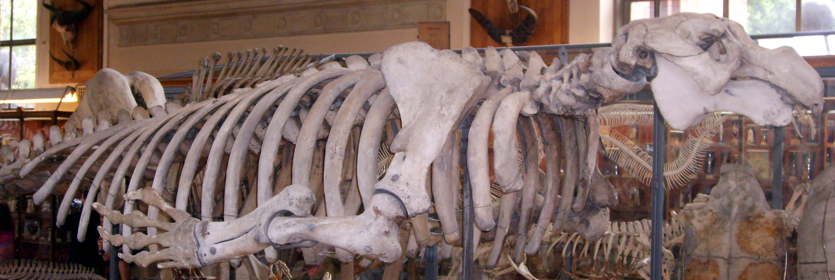 Hydrodamalis gigas skeleton, Muséum national d'histoire naturelle, Paris.